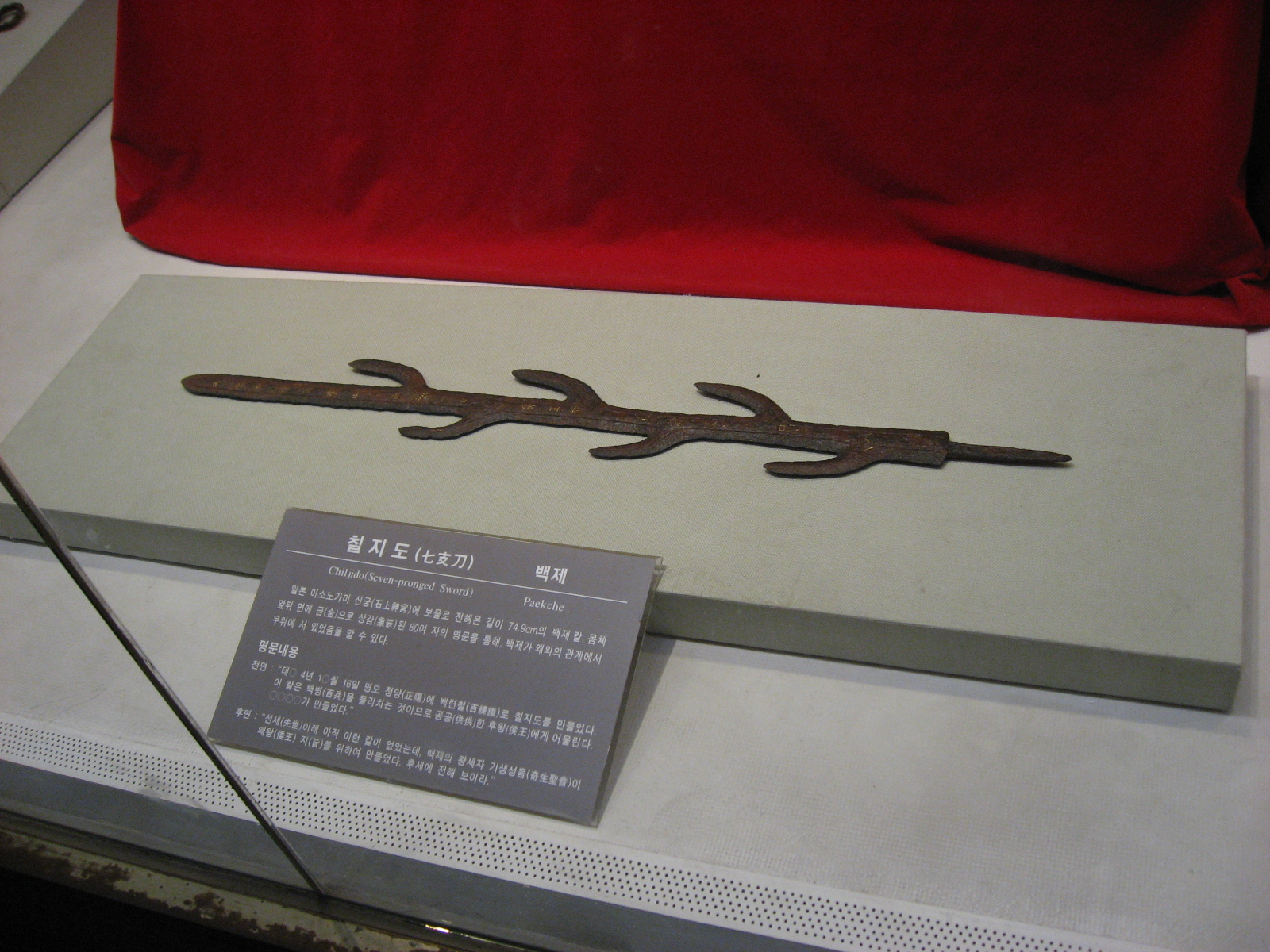 This replica of the Chiljido is held at the War Memorial in Seoul, South Korea. The sword is important to the history of both Korea and Japan.